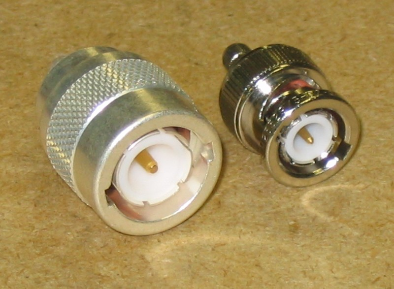 A C connector on the left beside a smaller BNC. Photo by Meggar